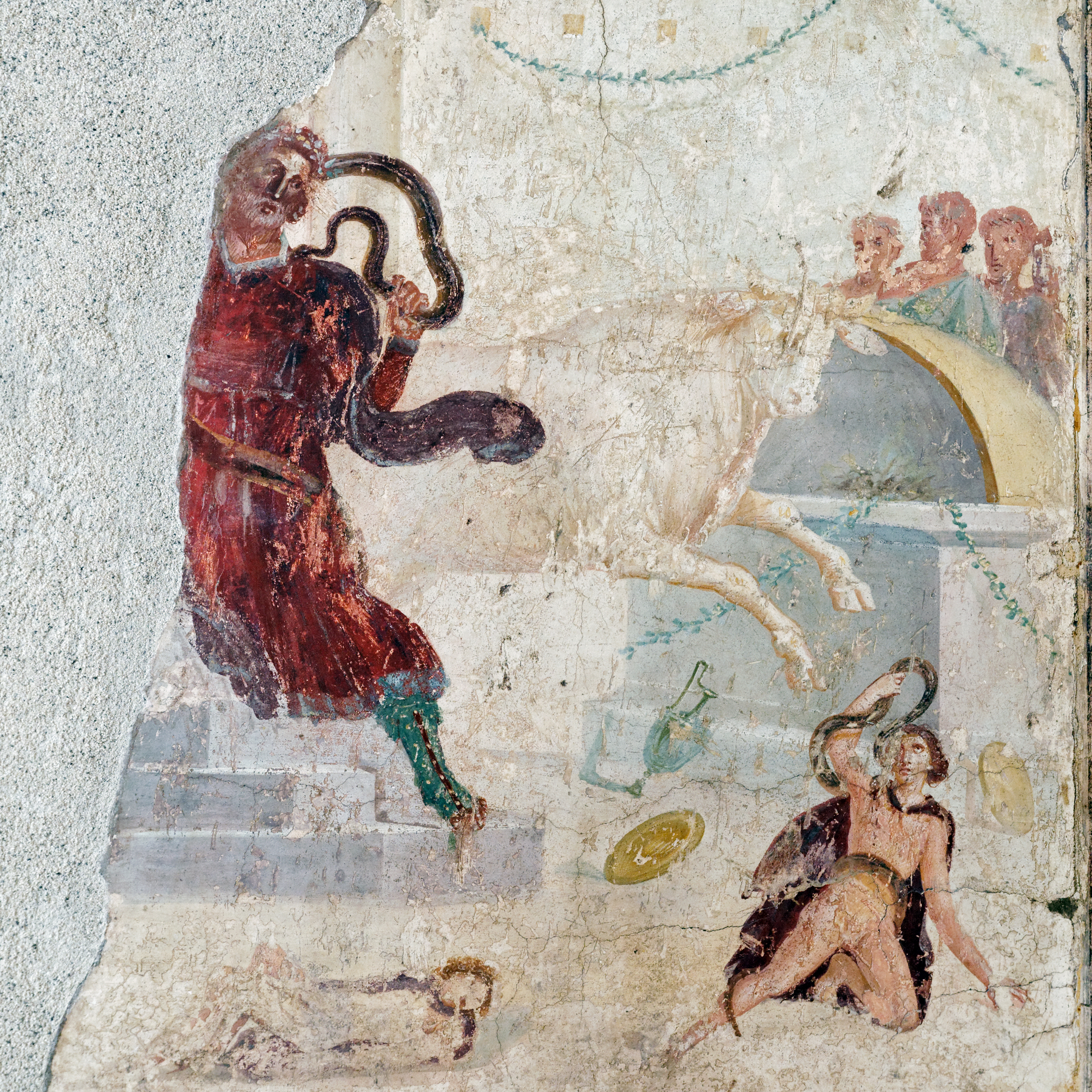 Laocoön and his sons attacked by serpents sent by Athena.